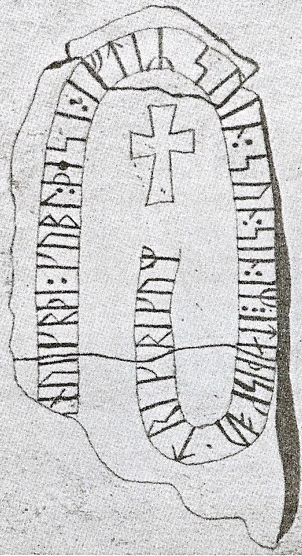 drawing of runestone sm 46 attributed to Johan Gustaf Liljegren. The stone is now missing.